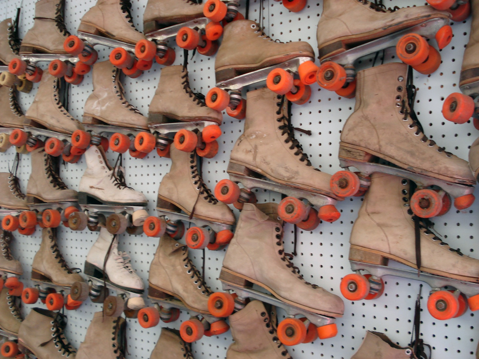 Paul Bunyan Land/This Old Farm Brainerd, Minnesota